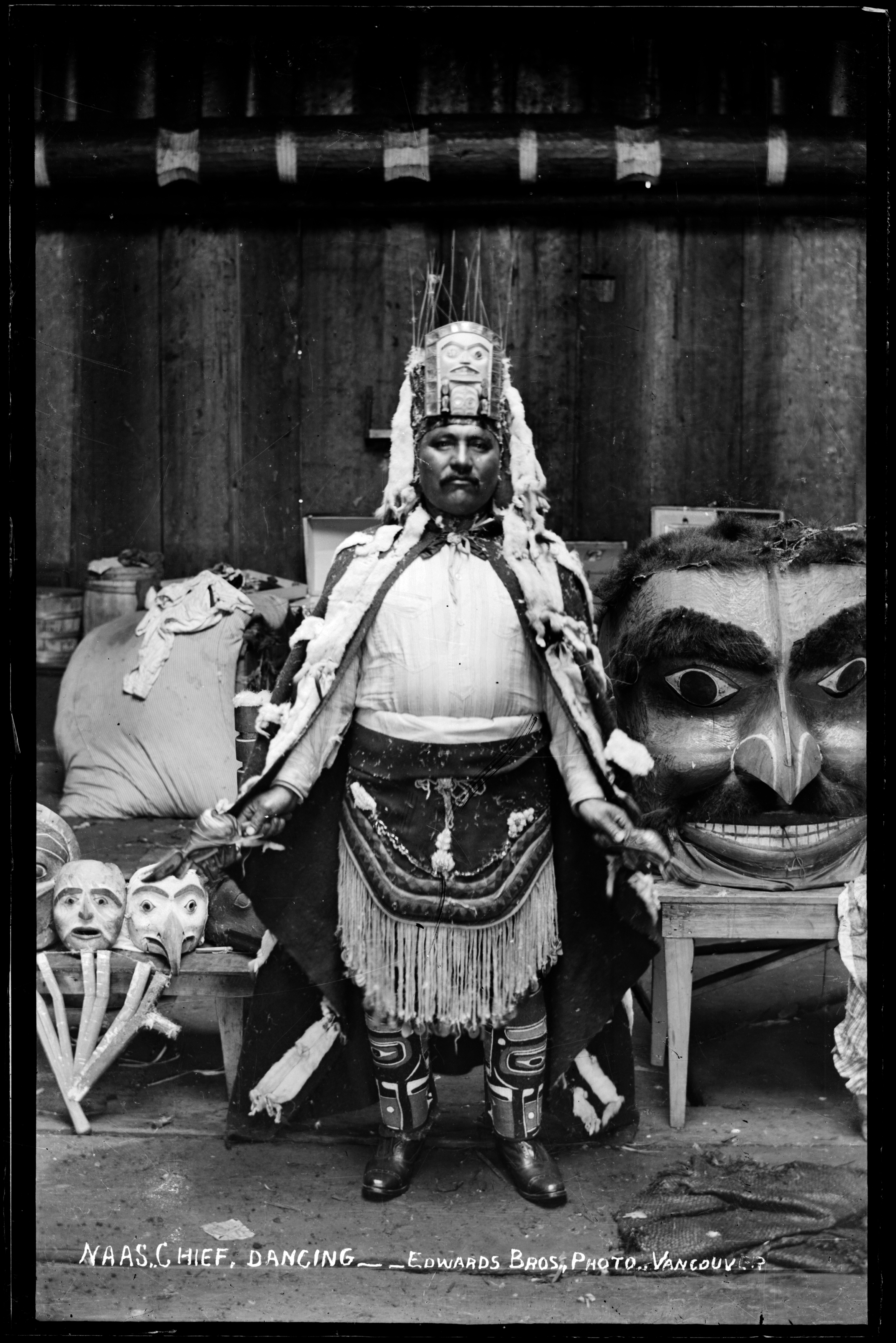 Nass chief in ceremonial costume VPL Accession Number: 2676 Date: 1902 Photographer/Studio: Edwards Brothers Content: Naas Chief Dancing Topic: Indians of North America Indians of North America - Clothing Indian wood-carving Indian textile fabrics Indian art Indians of North America - Masks Location: British Columbia More information on our historical photograph collection